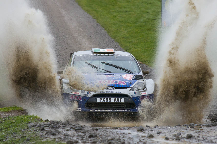 Wales Rally GB 2010 Barwa Rally Team,Craig Breen,Ford Fiesta,GBR,Gareth Roberts,Großbritannien,Margam,Margam Community,Margam Park,Rally,Rallye,S2000,WRC,Wales